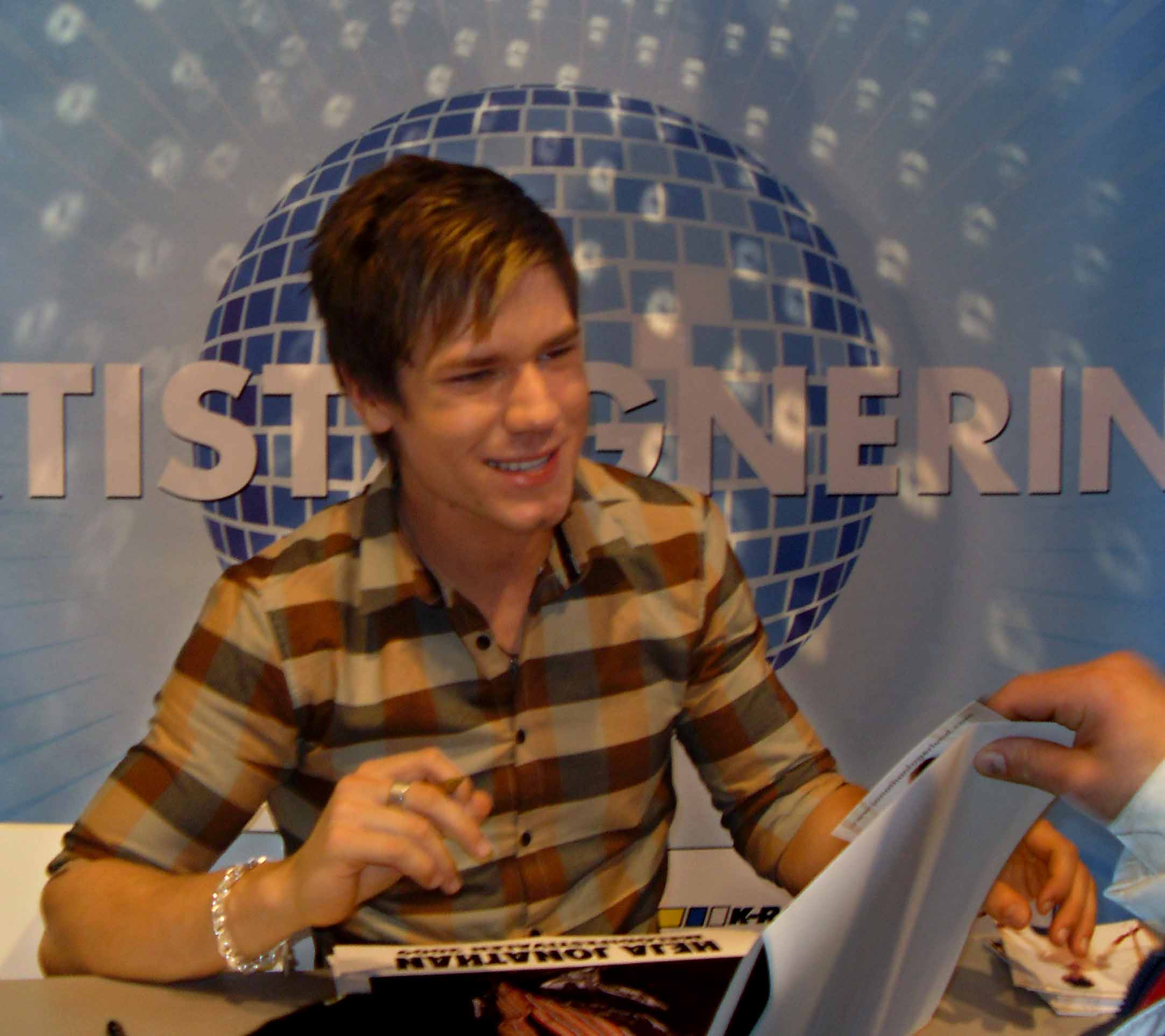 Swedish artist Jonathan Fagerlund 2009.